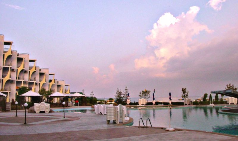 Photography: Kosi Gramatikoff, Twilight, Albena Resort